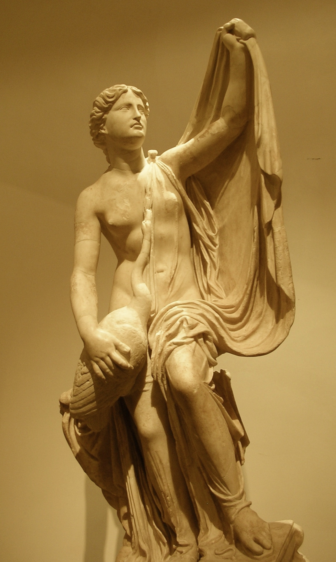 Leda and Zeus (as a Swan), El Prado Museum, Madrid. Photo by Caracas1830 (2006)